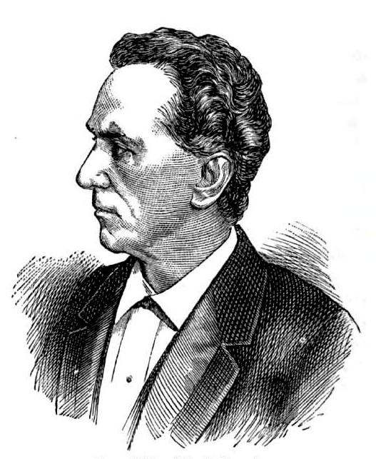 Drawing of Miguel Garcia Garcia Granados taken from an 1881 book